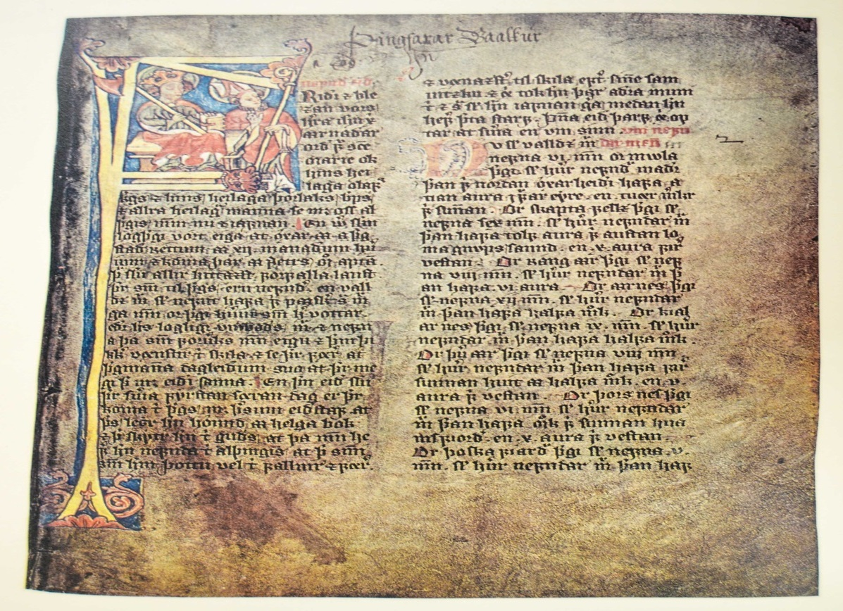 Early Icelandic Manuscript in Facsimile, Jónsbók, MS AM 351 Fol., Skálholtsbók eldri.